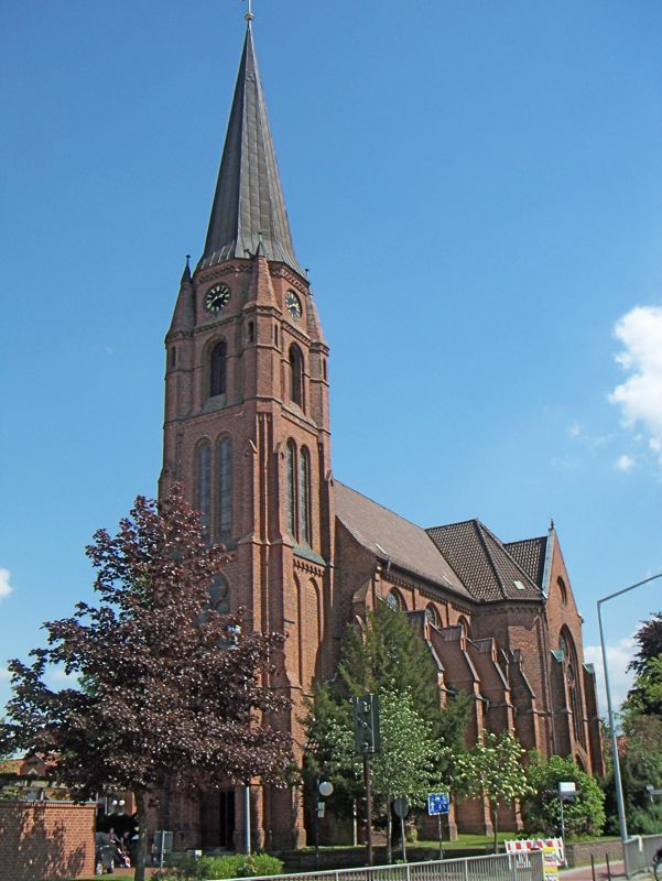 The Christuskirche in Syke. Lower Saxony, Germany